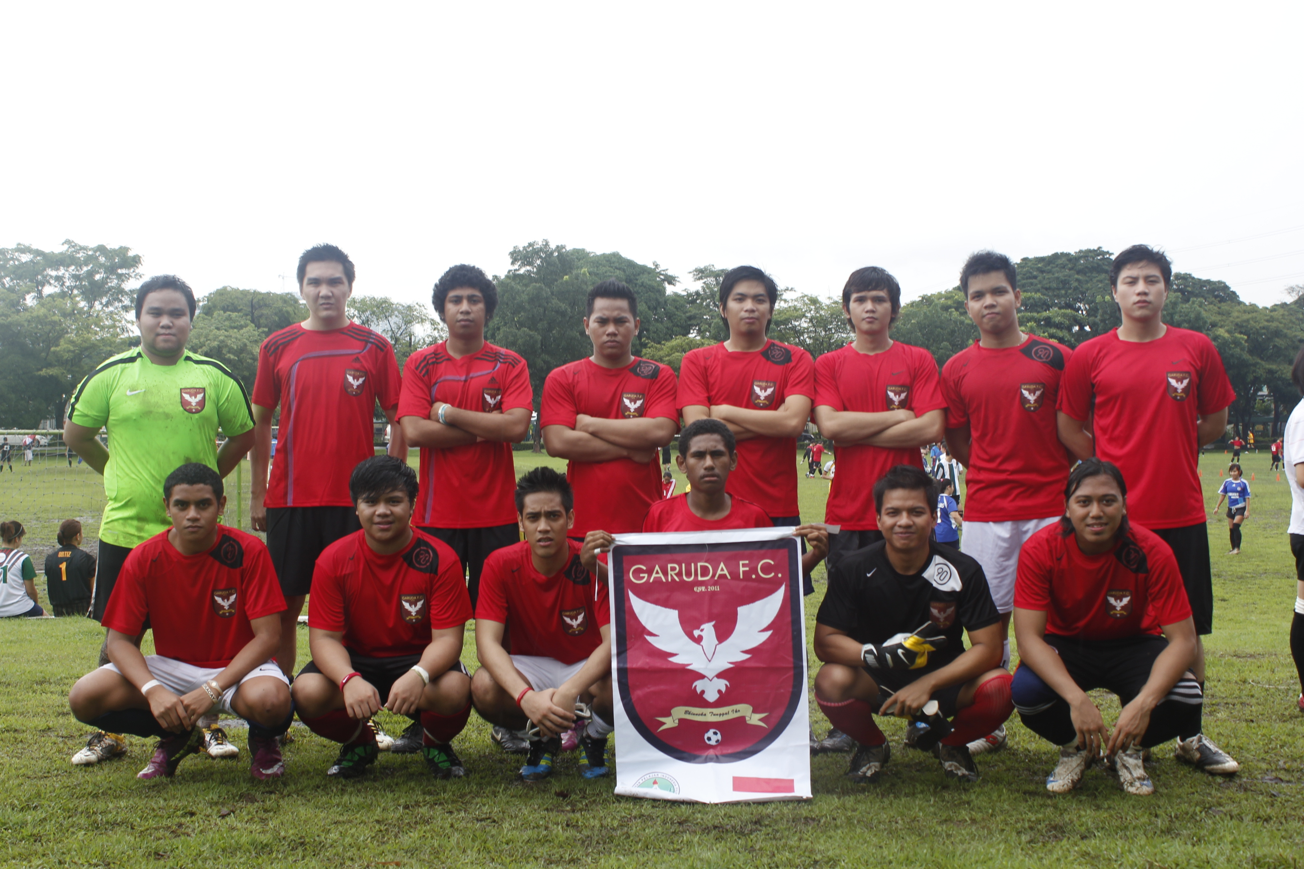 Garuda FC Aplha